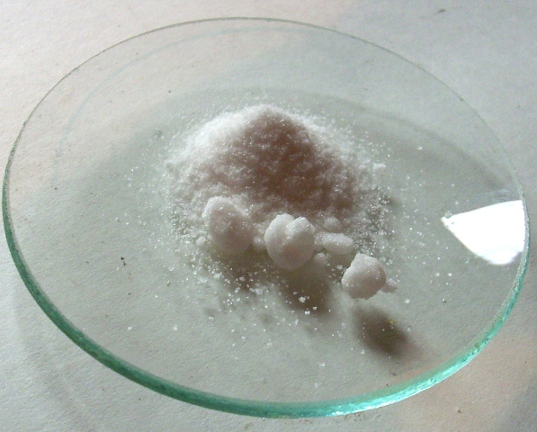 Urotropin, Hexamine, Hexamethylentetramine